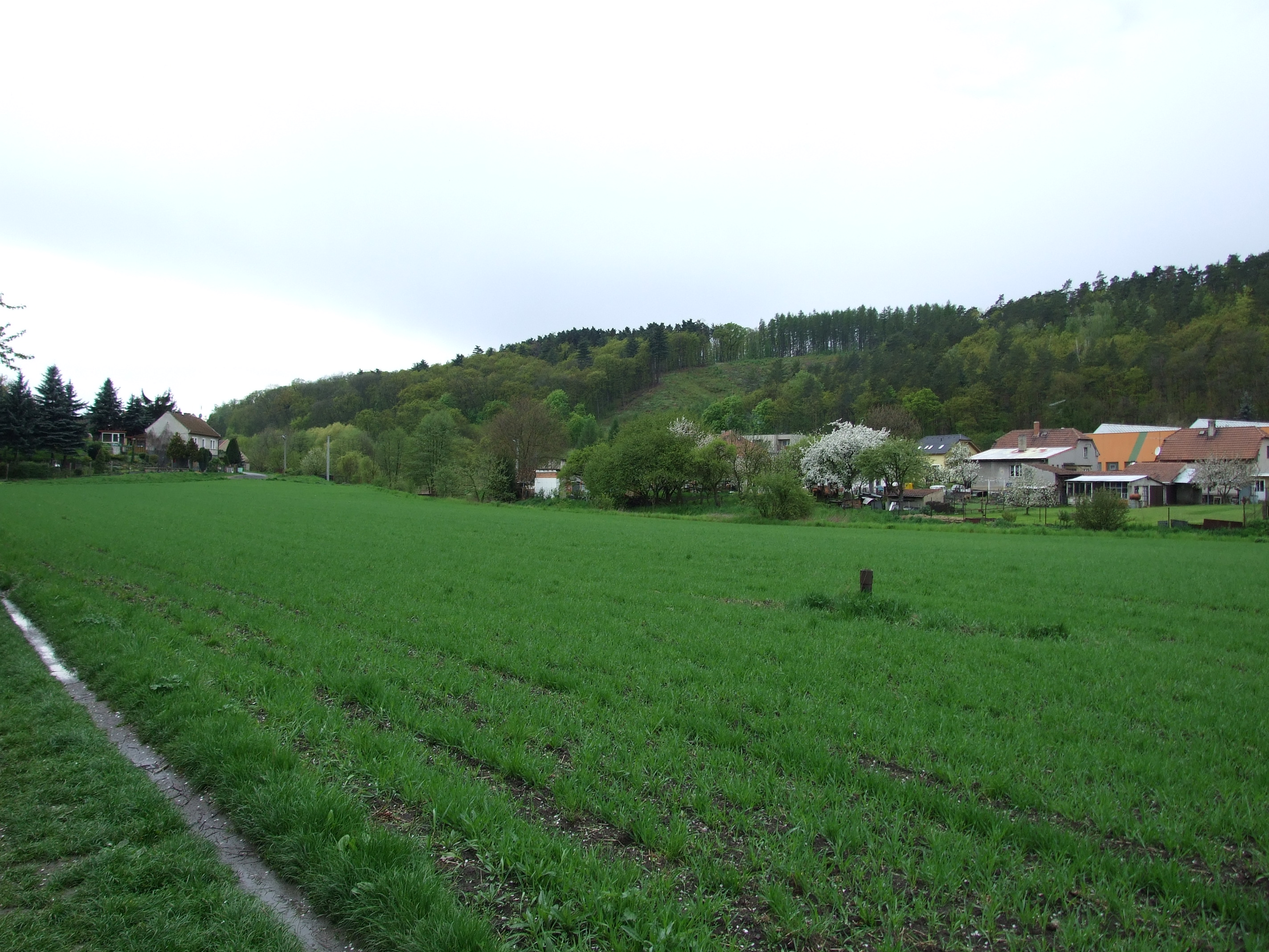 Valley of the Zákolanský potok stream between villages of Zákolany and Otvovice, Kladno District, Central Bohemian Region, Czech Republic. The bottom of the valley with meadow and houdes along the road form the northeasternmost bulge of Zákolany while the wooded slopes on both sides (in the background and behind the observer) of the valley belong to Otvovice cadastre.